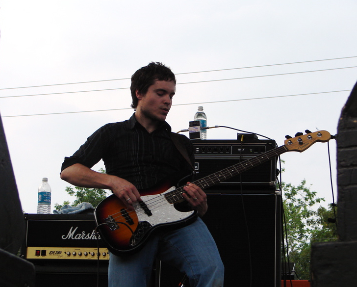 Bassist John Schofield of the band The Myriad performing in August 2006 on the Purple Door 2006 Tour.